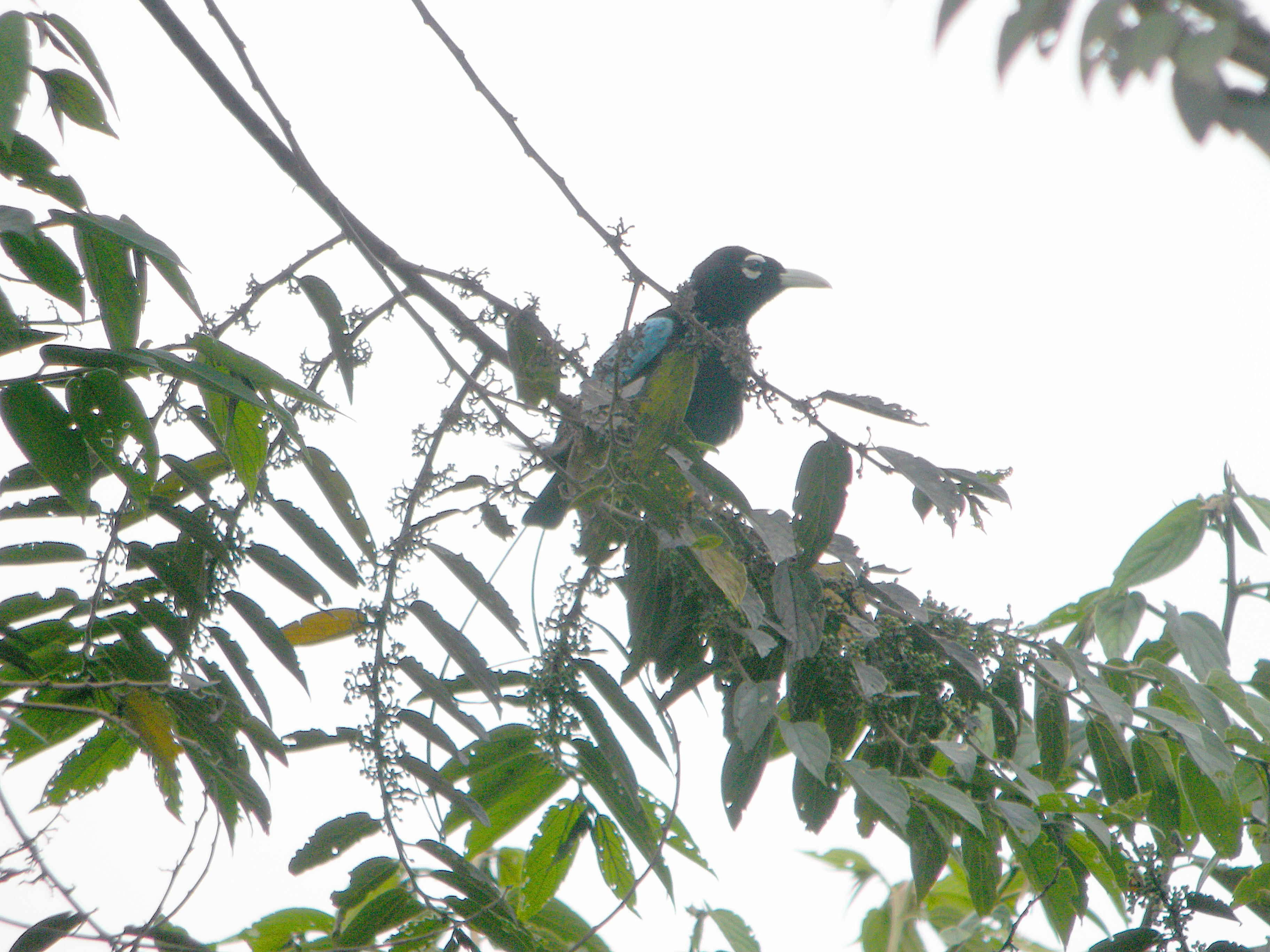 Blue Bird-of-paradise Paradisaea rudolphi, Papua New Guinea